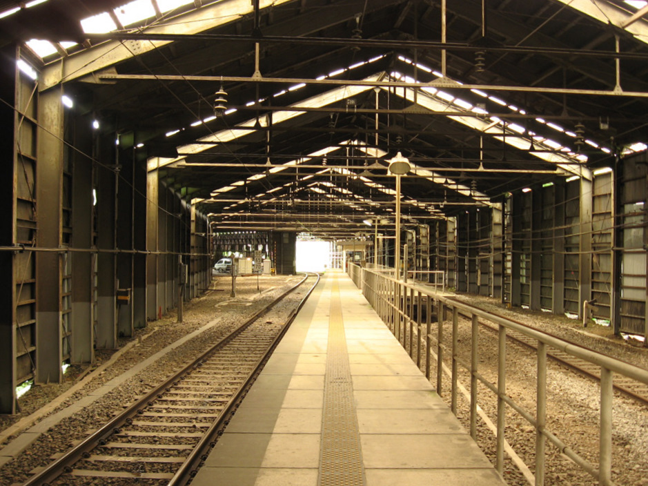 Toge Station on Ou main Line